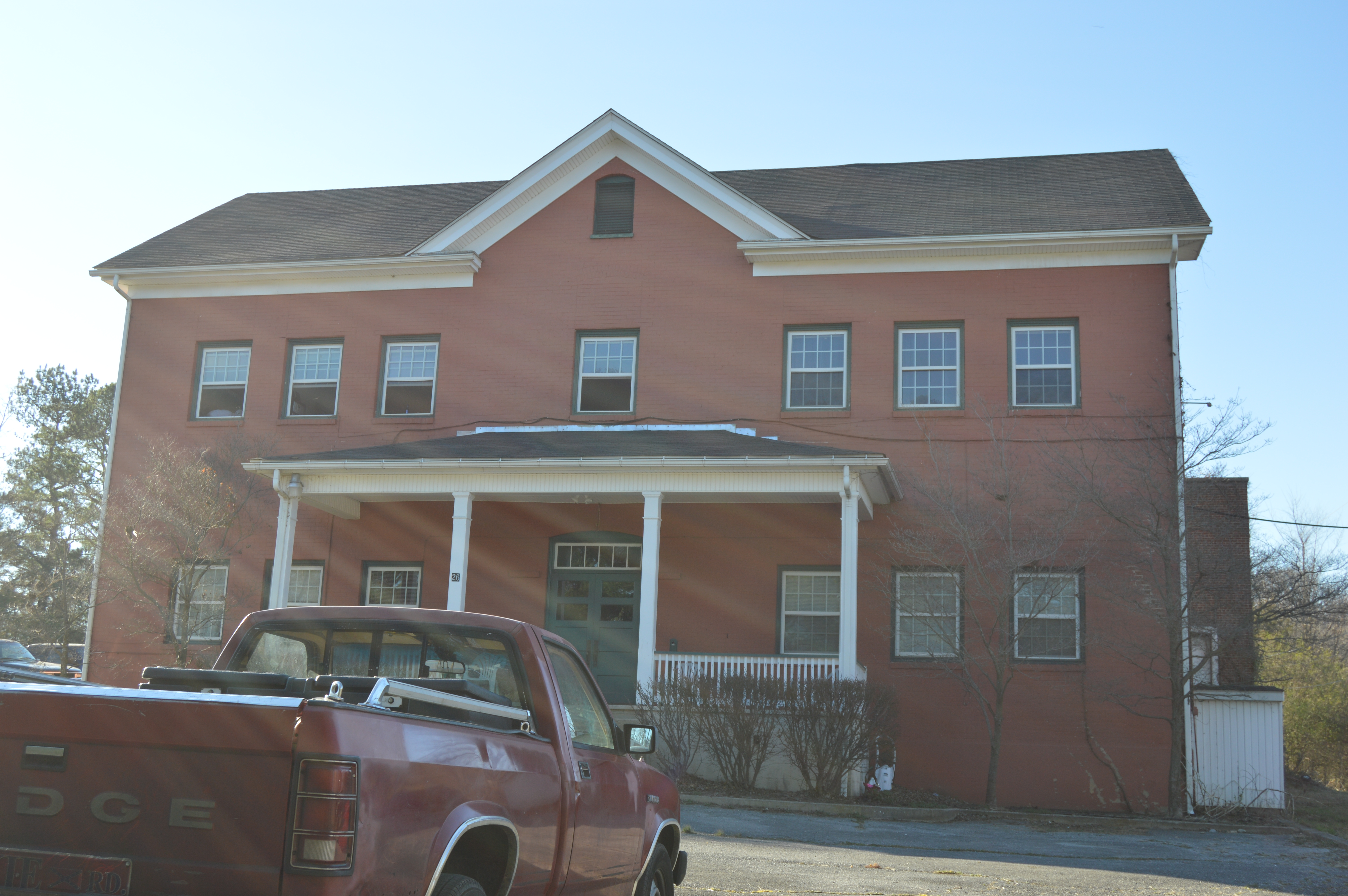 Front of the Mt. Sidney School, located on Mount Sidney School Lane in Mount Sidney, Virginia, United States. Built in 1912, it is listed on the National Register of Historic Places.